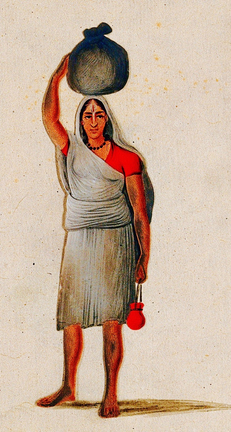 This is a derivative (cropped) work of painting on wikimedia commons. A woman with a Vishnu mark on her forehead, carrying a cloth bundle on her head; by an Indian artist. Iconographic Collections: Wellcome Library no. 581406i. The composition date is unknown, the source estimates it to be a 19th-century painting. Keywords: Ethnology; Culture; Ritual; India; Religion; Costume; Hinduism